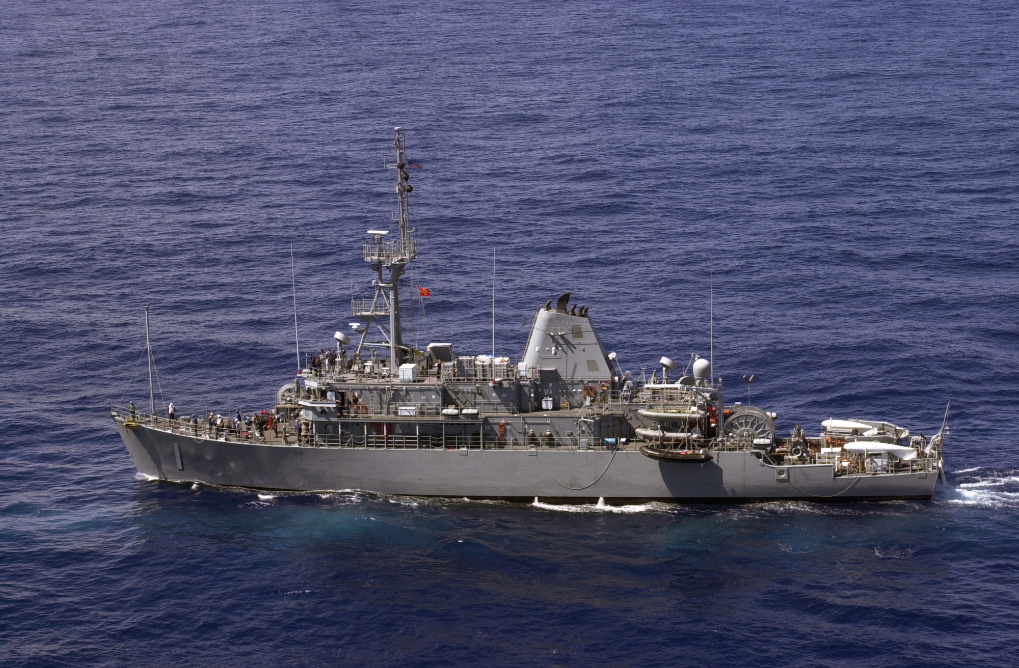 Pacific Ocean (July 10, 2004) — The mine countermeasure ship USS Avenger (MCM-1) operates off the coast of Hawaii during exercise Rim of the Pacific (RIMPAC) 2004. RIMPAC is the largest international maritime exercise in the waters around the Hawaiian Islands. This yearís exercise includes seven participating nations; Australia, Canada, Chile, Japan, South Korea, the United Kingdom and the United States. RIMPAC is intended to enhance the tactical proficiency of participating units in a wide array of combined operations at sea, while enhancing stability in the Pacific Rim region.